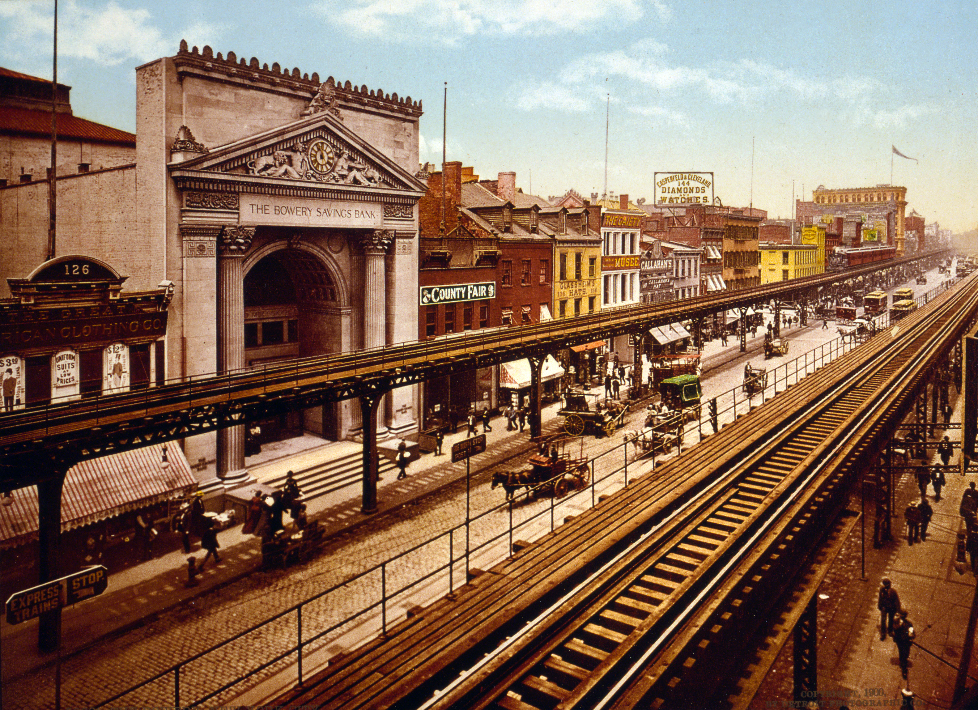 Photochrom print of the Bowery, New York City.